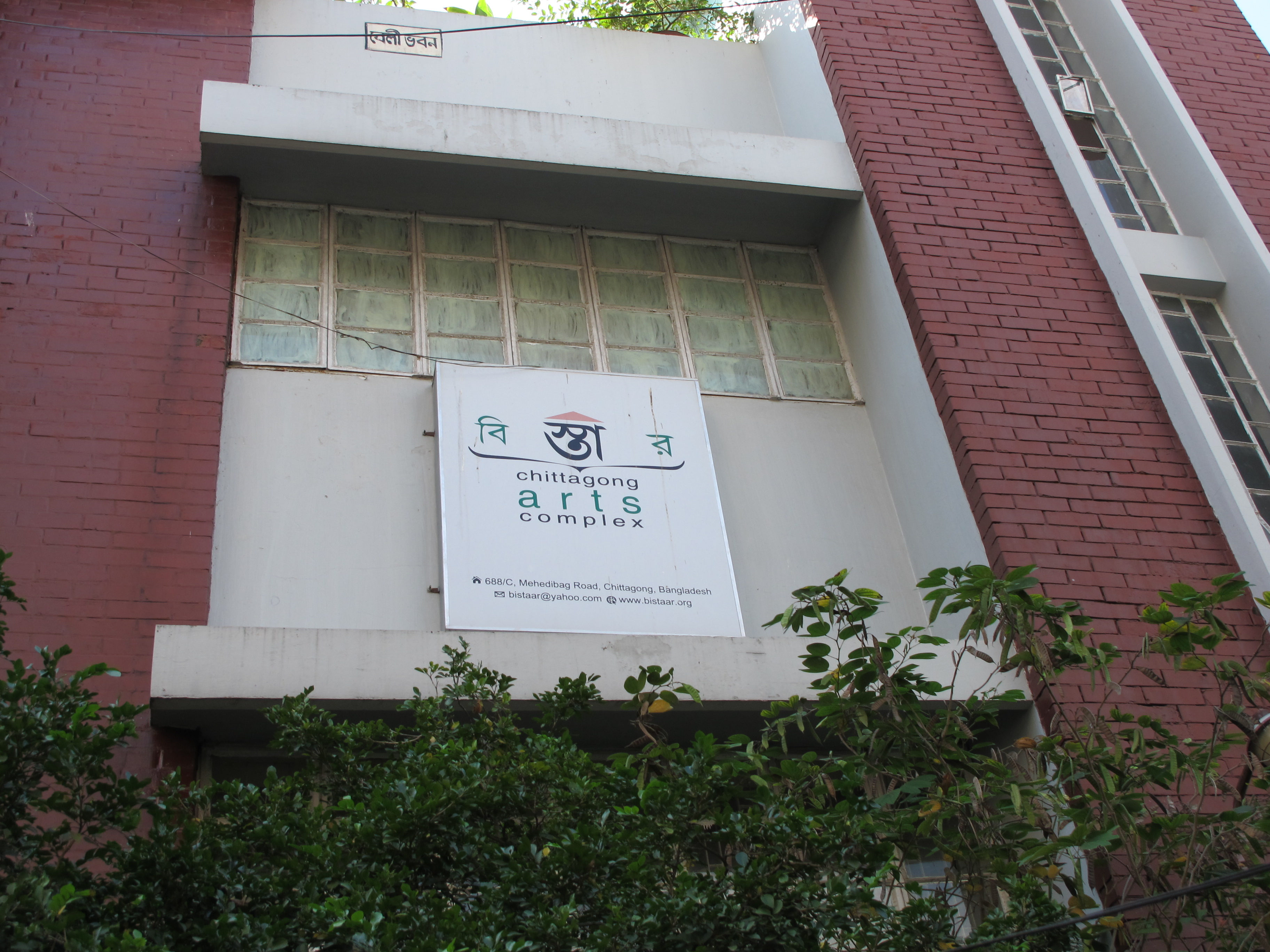 Entrance of the Bistaar art complex